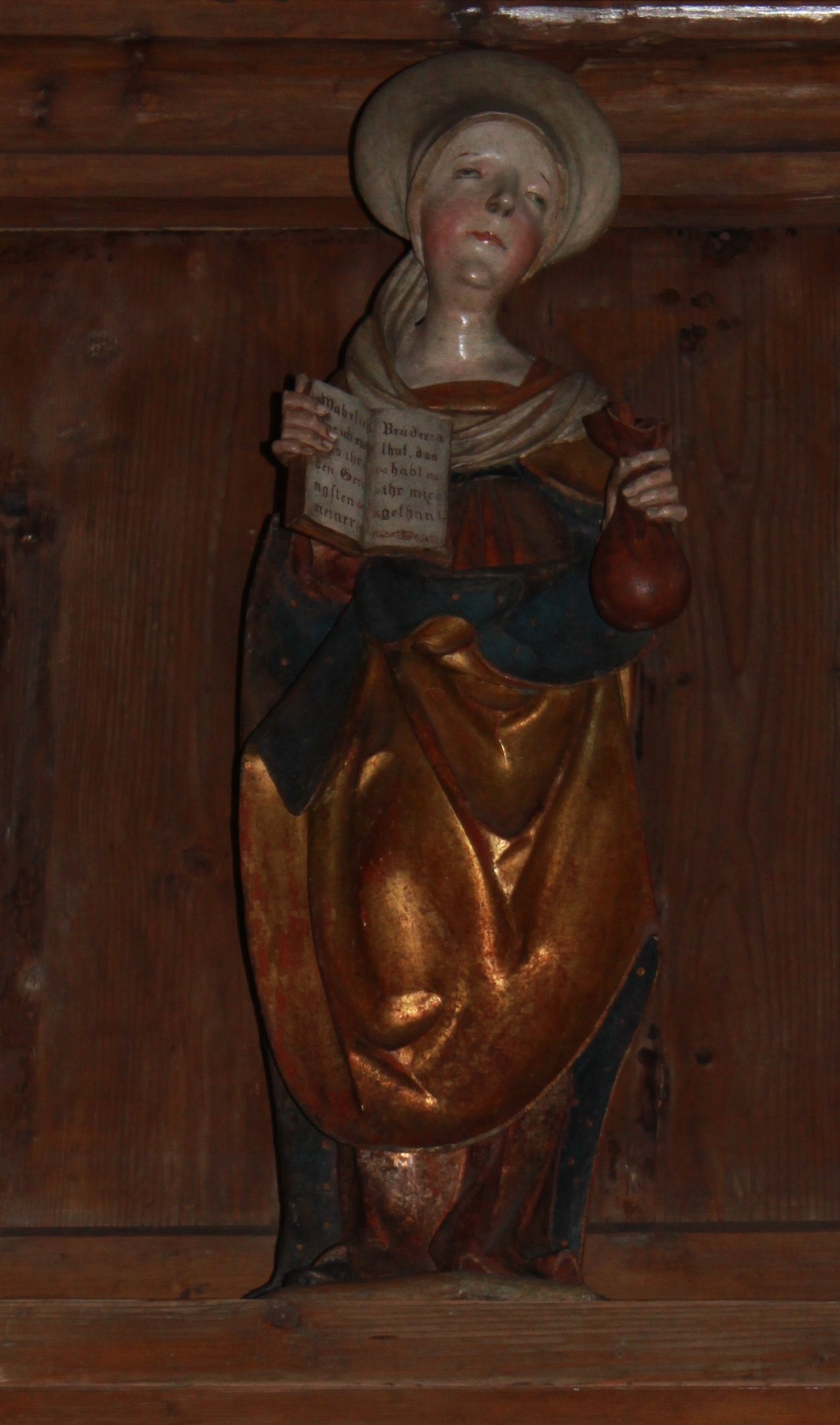 Church of Teutonic Knights in the city Friesach: Hemma of Gurk